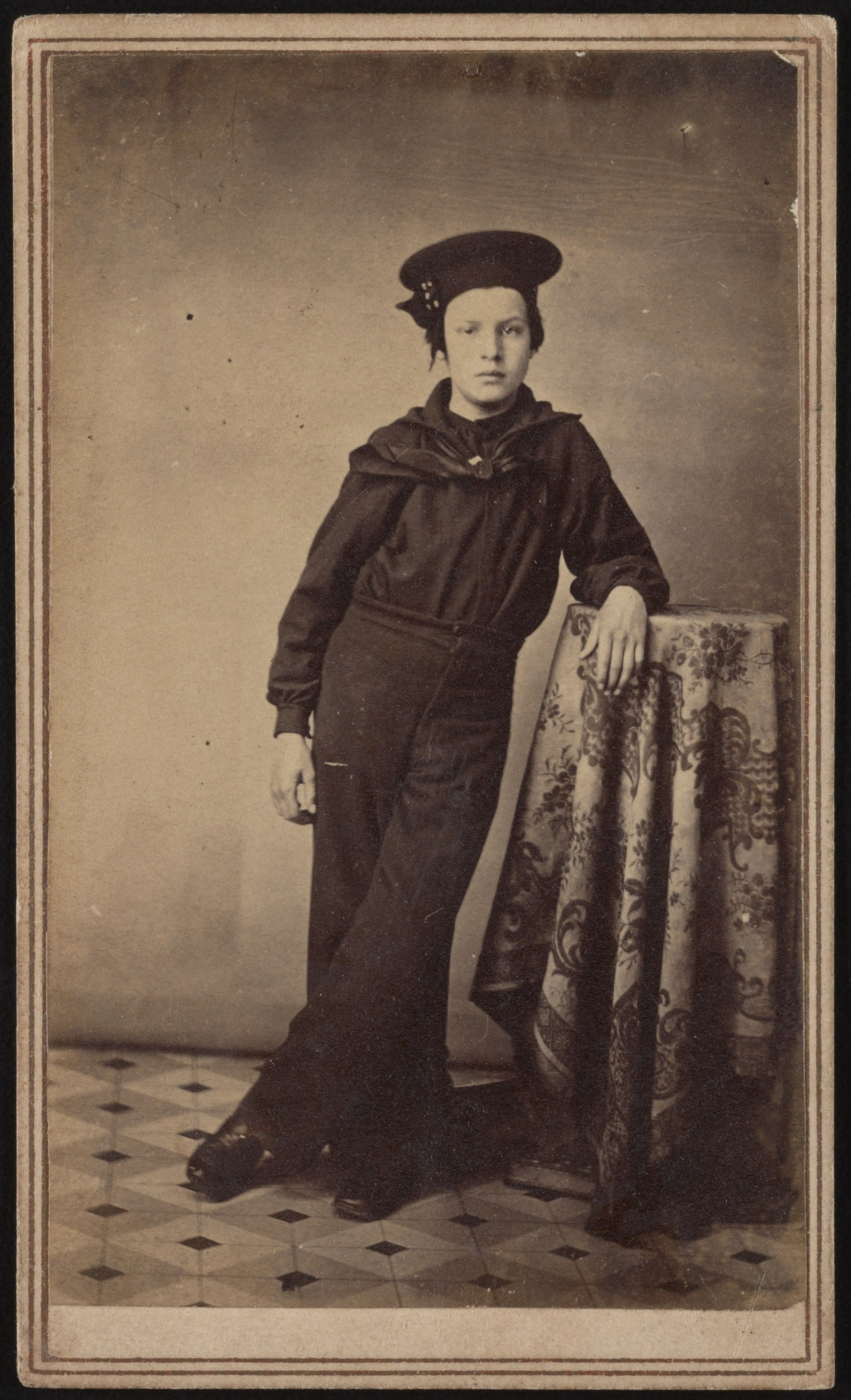 Title: Sailor J.F.W. Mitchell of the U.S.S. Sabine in uniform Abstract/medium: 1 photograph : albumen print on card mount ; mount 10 x 6 cm (carte de visite format)